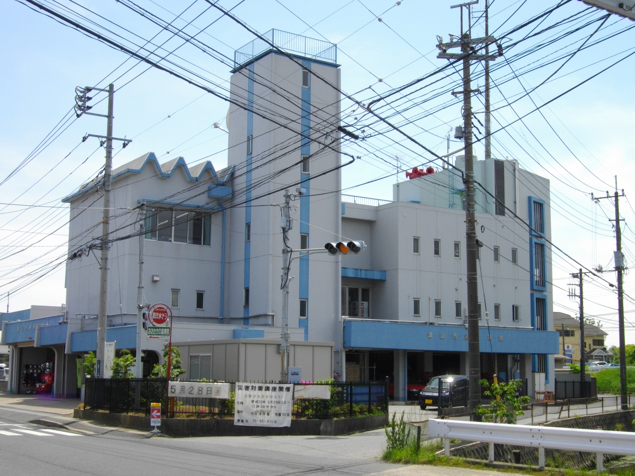 Nagareyama City Fire Department